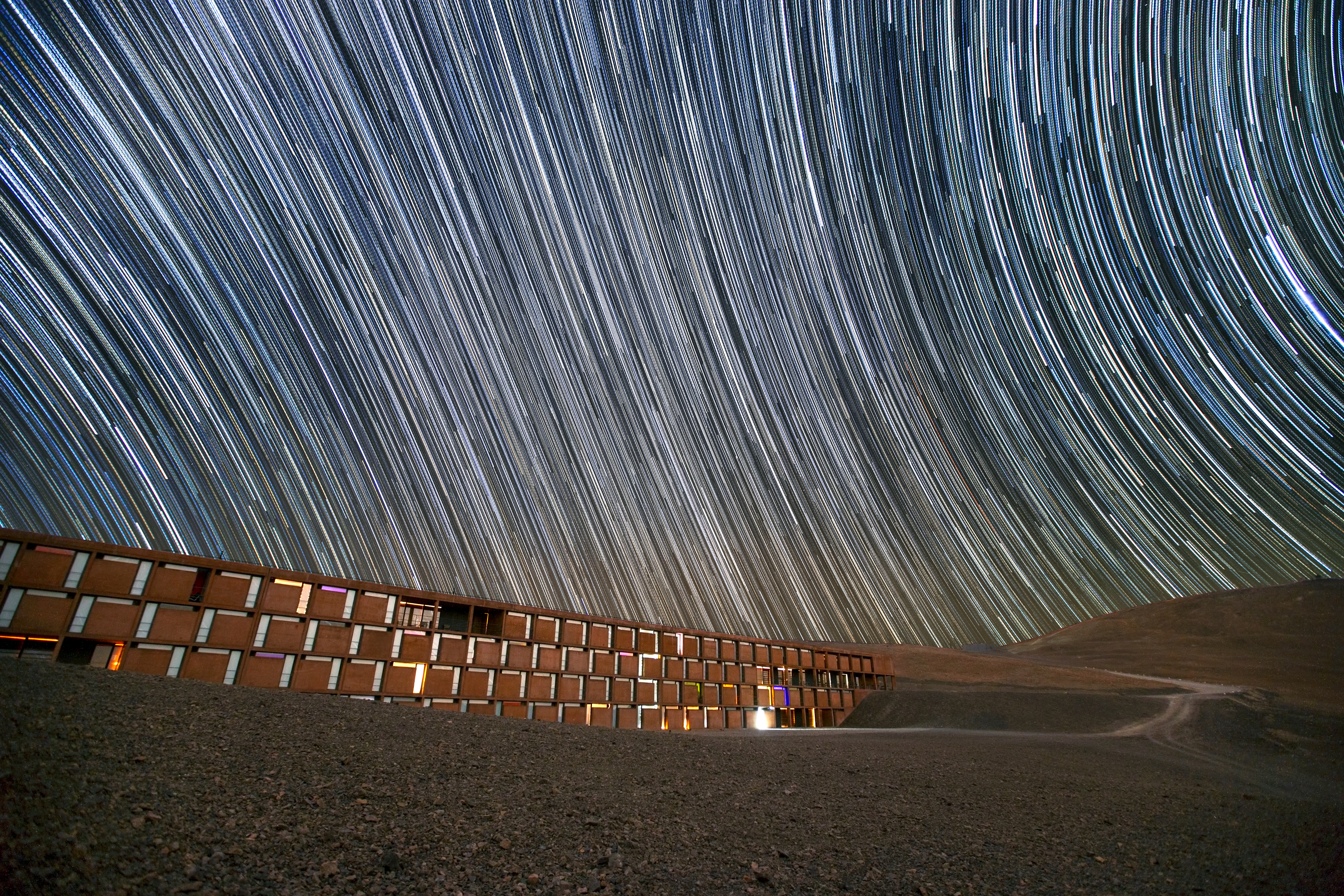 This image shows a dark Chilean sky filled with spectacular star trails — caused by the Earth's rotation during the camera's long exposure time. Underneath these dramatic streaks lies the Paranal Residencia, an oasis to the staff and visitors to ESO's Very Large Telescope, located high on Cerro Paranal in the Chilean desert. Construction of the Residencia began in 1998 and was completed by 2002. Since then, it has offered a welcome break from the harsh, dry climate of the desert to the scientists and engineers who work at Paranal Observatory. The four-storey building has the majority of its structure buried underground. The facility was designed by German architects Auer+Weber to complement the surrounding environment. From certain angles, the combination of hi-tech utilitarian architecture and inconspicuous, almost camouflage-like design is reminiscent of a villain’s secret lair. Perhaps it is no surprise that the Residencia was selected as the setting for the final battle in the 2008 James Bond movie Quantum of Solace. Flickr user John Colosimo submitted this photograph to the Your ESO Pictures Flickr group. The Flickr group is regularly reviewed and the best photos are selected to be featured in our popular Picture of the Week series, or in our gallery.